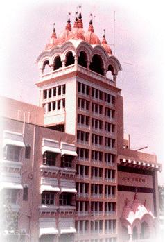 Jnana Prabodhini Prashala